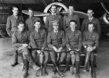 Officers of B Flight, No. 4 Squadron, Australian Flying Corps (AFC), at their aerodrome near Clairmarais in front of one of their Sopwith Camel aircraft. Back row, left to right: Lieutenant (Lt) Milner; Lt Sly; unidentified visitor; Lt Moore; Second Lieutenant A. T. Heller. Front row: Lt J. H. Weingarth; Lt O. B. Ramsay; Lt H. G. Watson; Lt H. F. Davison; Major Tanner.